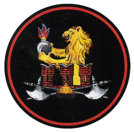 Navy Sleeve insignia of the 154th ICR